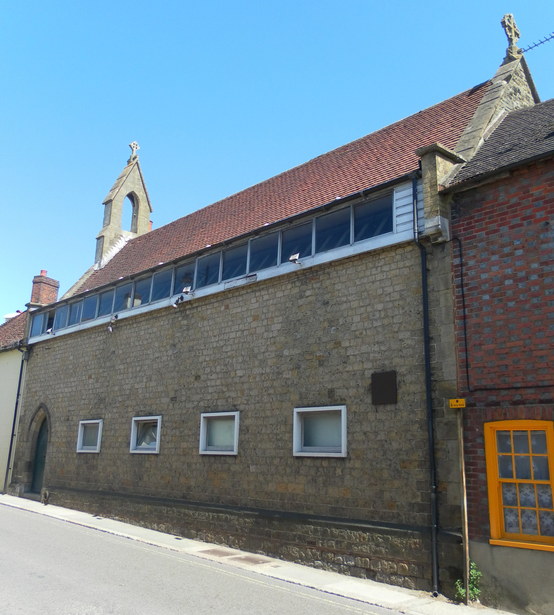 Former St Francis of Assisi's Roman Catholic Church, Rumbolds Hill, Midhurst, District of Chichester, West Sussex, England. Now a restaurant.